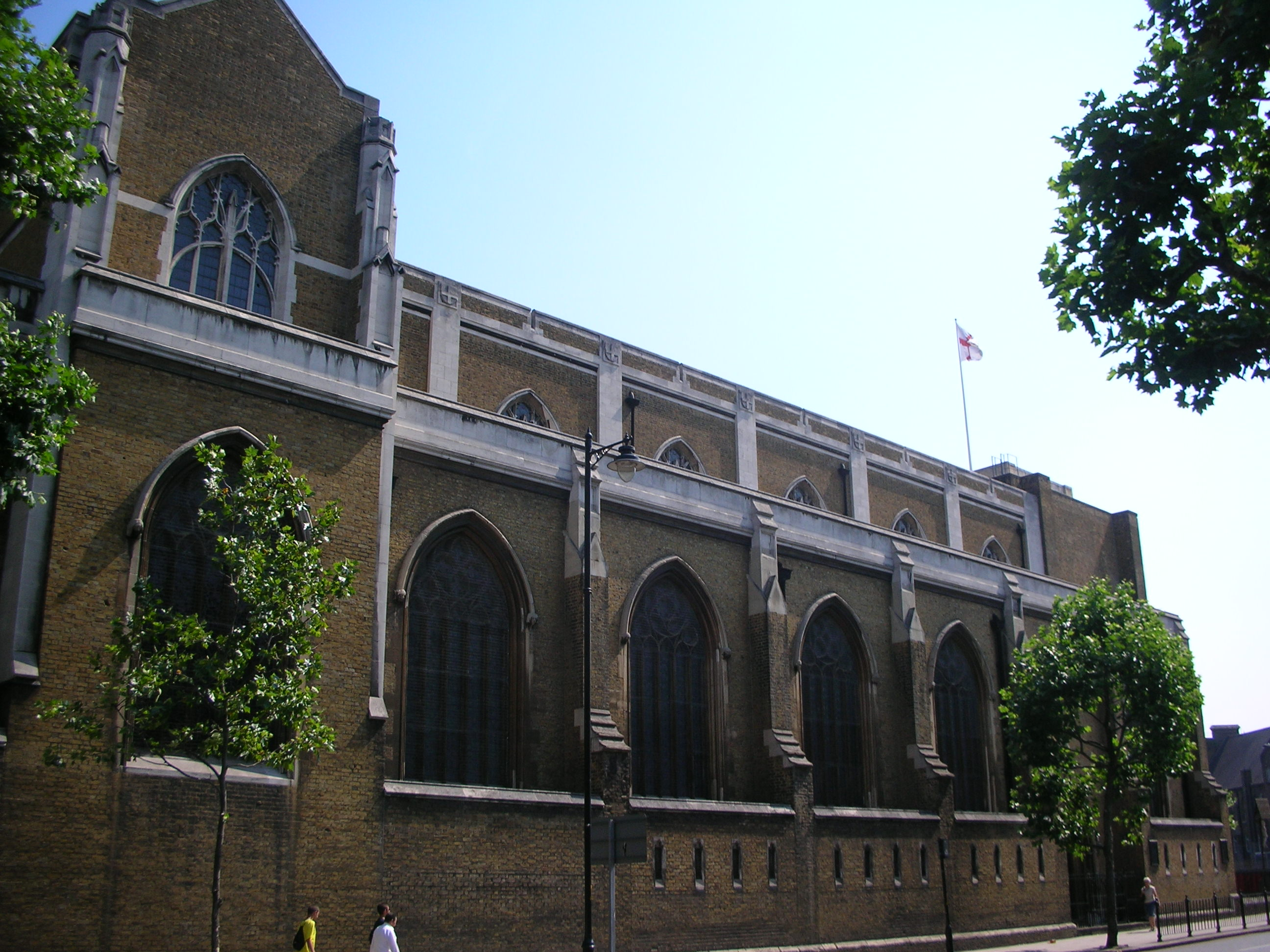 St George's Cathedral, Southwark, London. Photograph by Jonathan Bowen.